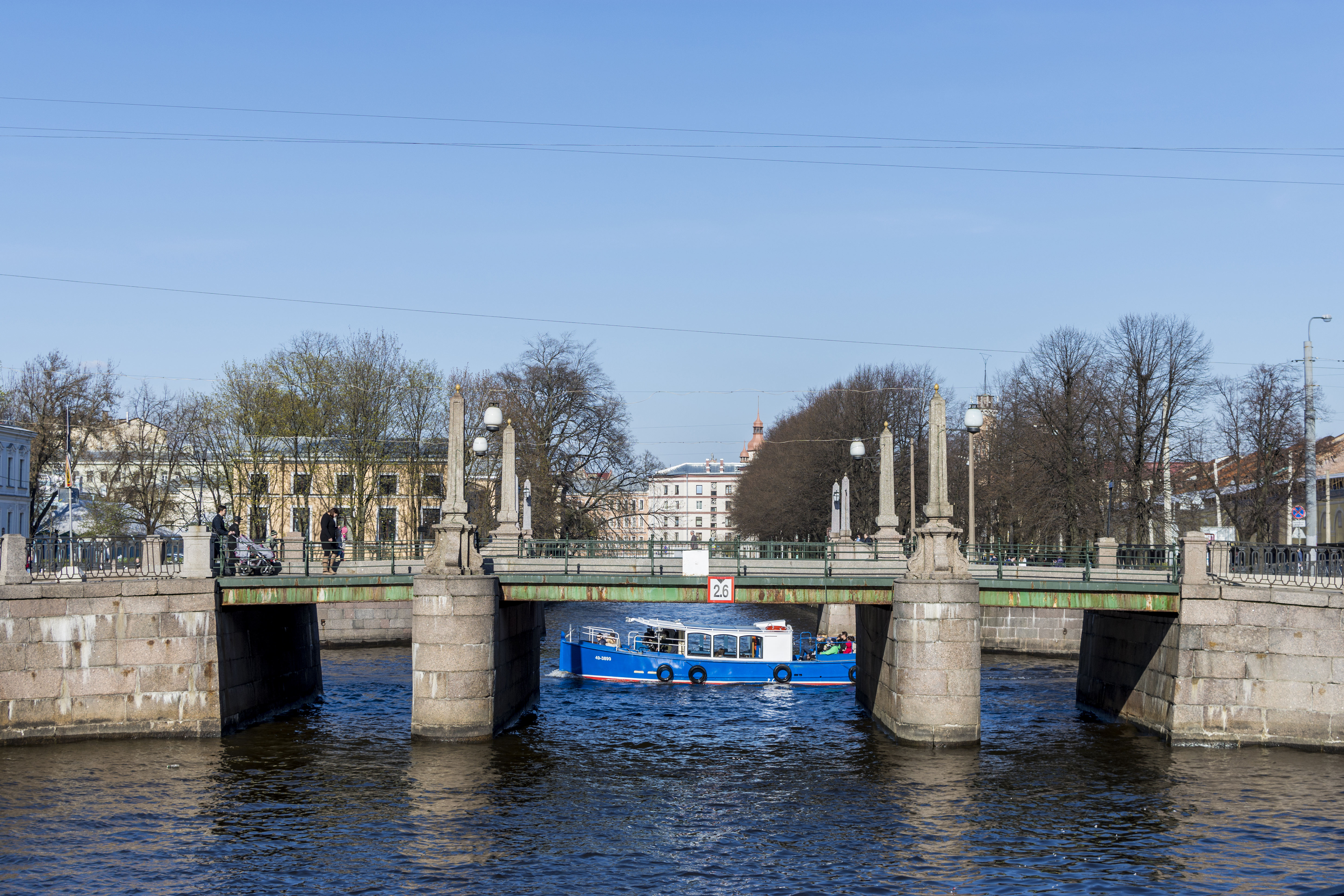 Pikalov Bridge in Saint Petersburg